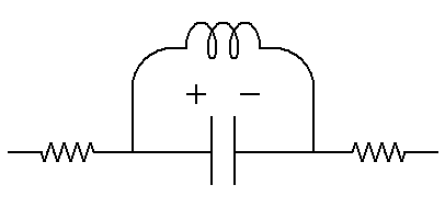 One of the Kilroy